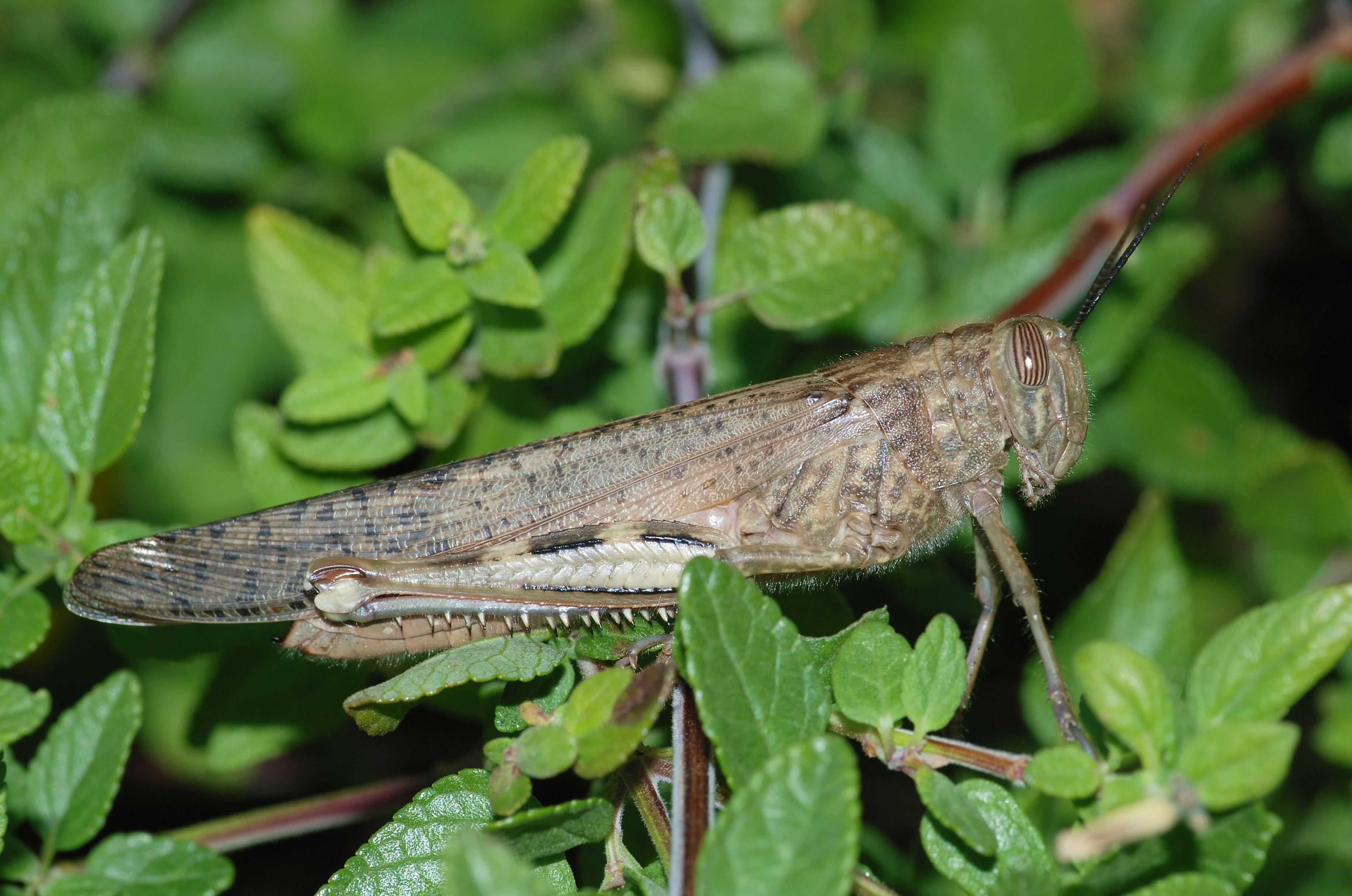 Grassopper of Acrididae family: Anacridium aegyptium